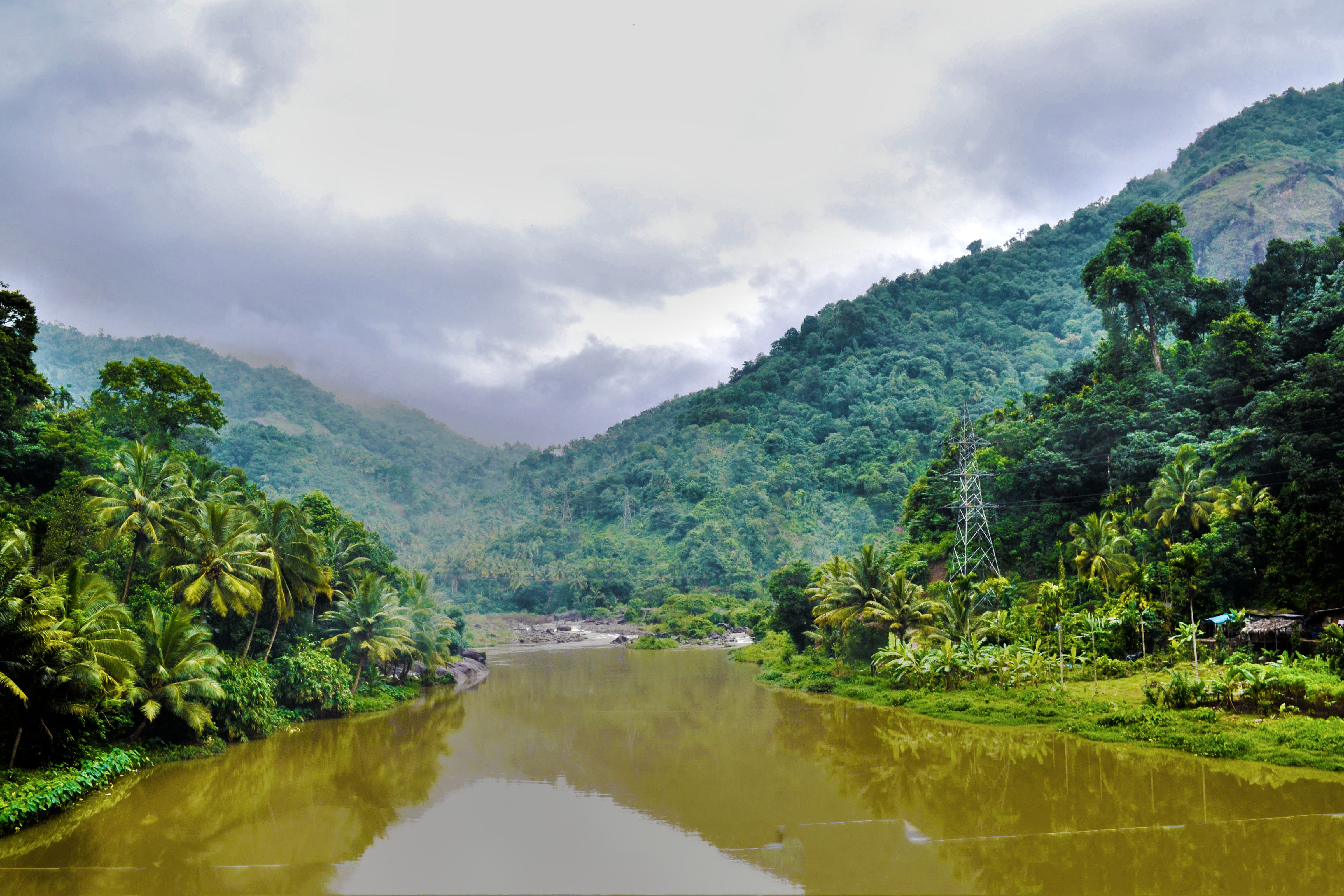 Palm trees in Kerala